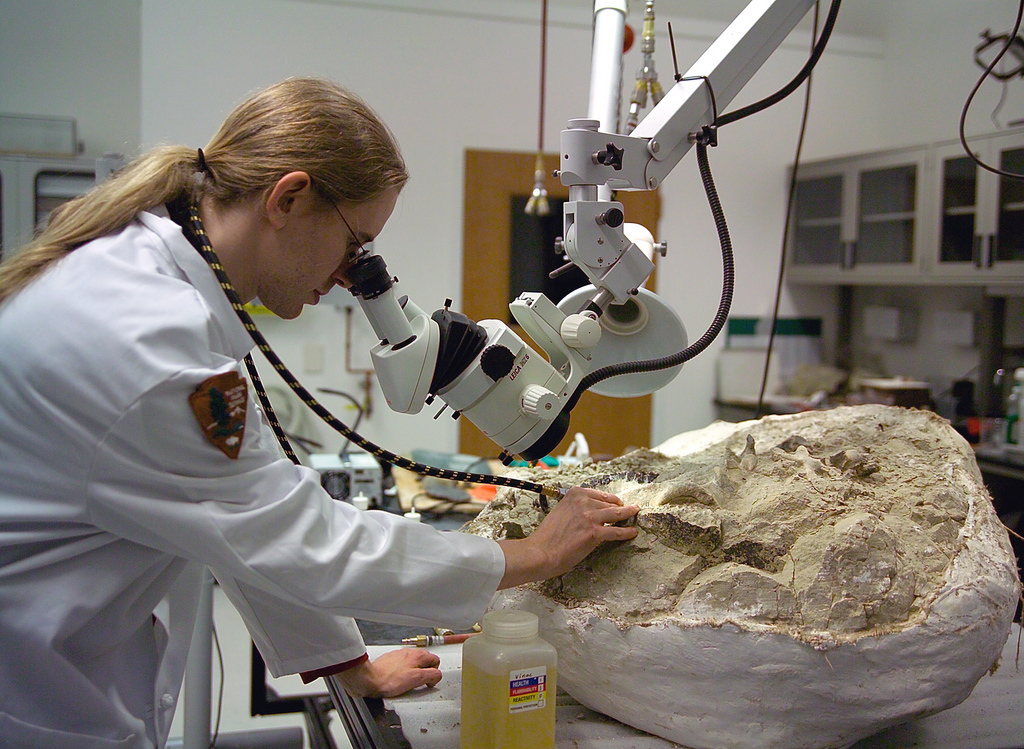 Fossil preparation in a laboratory at the Thomas Condon Paleontology Center. The center is part of the John Day Fossil Beds National Monument near Dayville in the U.S. state of Oregon.